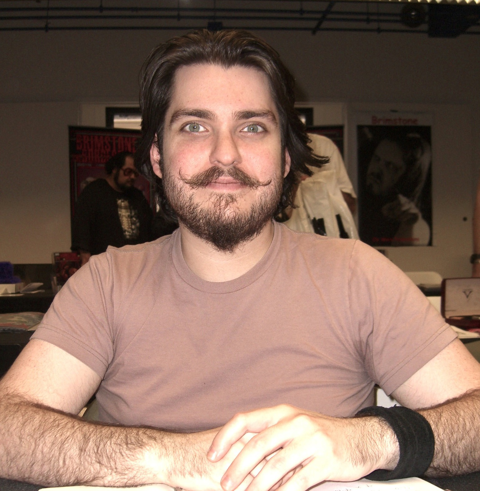 Comics creator Kevin Colden at the Big Apple Convention in Manhattan, May 21, 2011. Photographed by Luigi Novi. This photo is not in the public domain. It may, however, be used, modified and published for any purpose, free of charge, only if the photographer is properly credited, either by linking the photograph to this page, or with an easily visible credit to the photographer placed near the photo in each instance in which it is used. (See licensing information below.) Publication of this photo without this proper attribution constitutes copyright infringement. If you have any questions, you can contact me on my Wikipedia Talk Page.